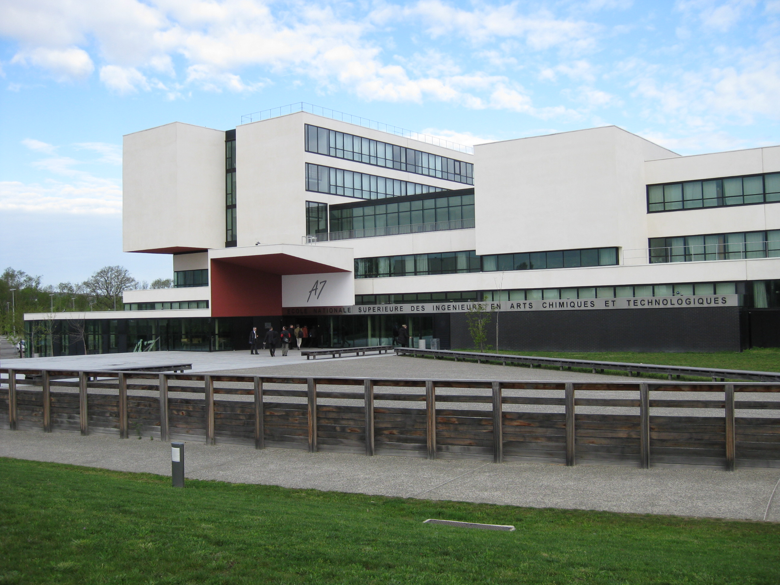 École nationale supérieure des ingénieurs en arts chimiques et technologiques, also known as INP-ENSIACET (or A7). Main entrance